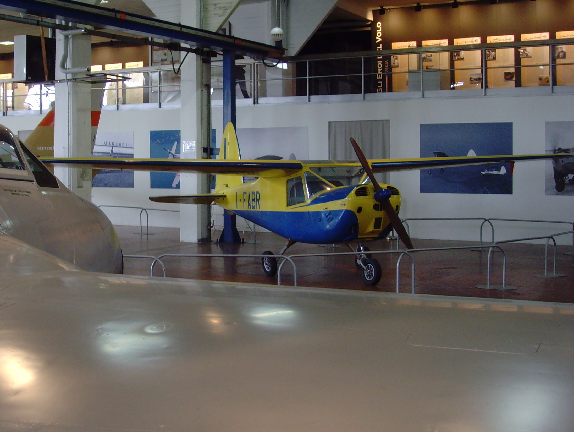 The Aermacchi MB-308 I-FABR displayed in Volandia museum.